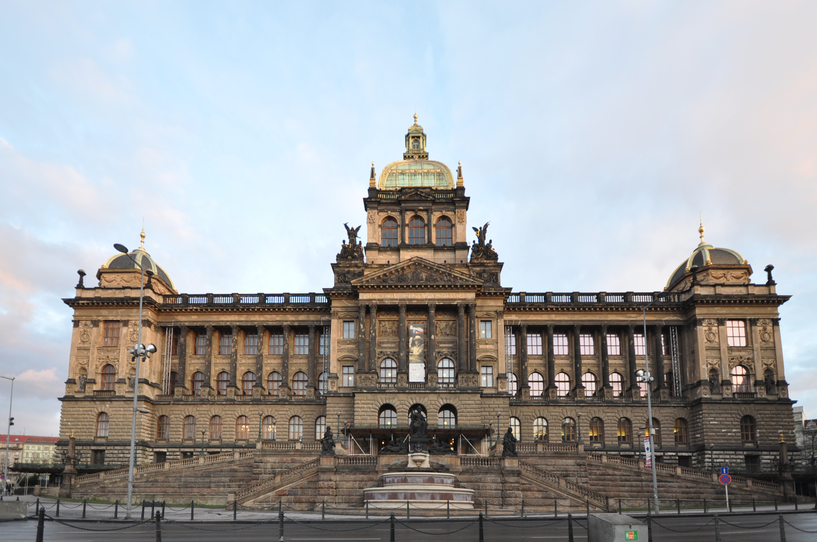 The National museum (Czech: Národní muzeum) is a Czech museum institution intended to systematically establish, prepare and publicly exhibit natural scientific and historical collections. It was founded 1818 in Prague by Kašpar Maria Šternberg. Historian František Palacký was also strongly involved. The main museum building is located on the upper end of Wenceslas Square and was built by prominent Czech neo-renaissance architect Josef Schulz from 1885 - 1891;before this the museum had been temporarily based at several noblemen’s palaces. With the construction of a permanent building for the museum, a great deal of work which had previously been devoted to ensuring that the collections would remain intact was now put toward collecting new materials. The building was damaged during World War II in 1945 by a bomb, but the collections were not damaged because they had been moved to other storage sites. The museum reopened after intensive repairs in 1947, and in 1960 exterior night floodlighting was installed, which followed a general repair of the facade that had taken place in previous years.